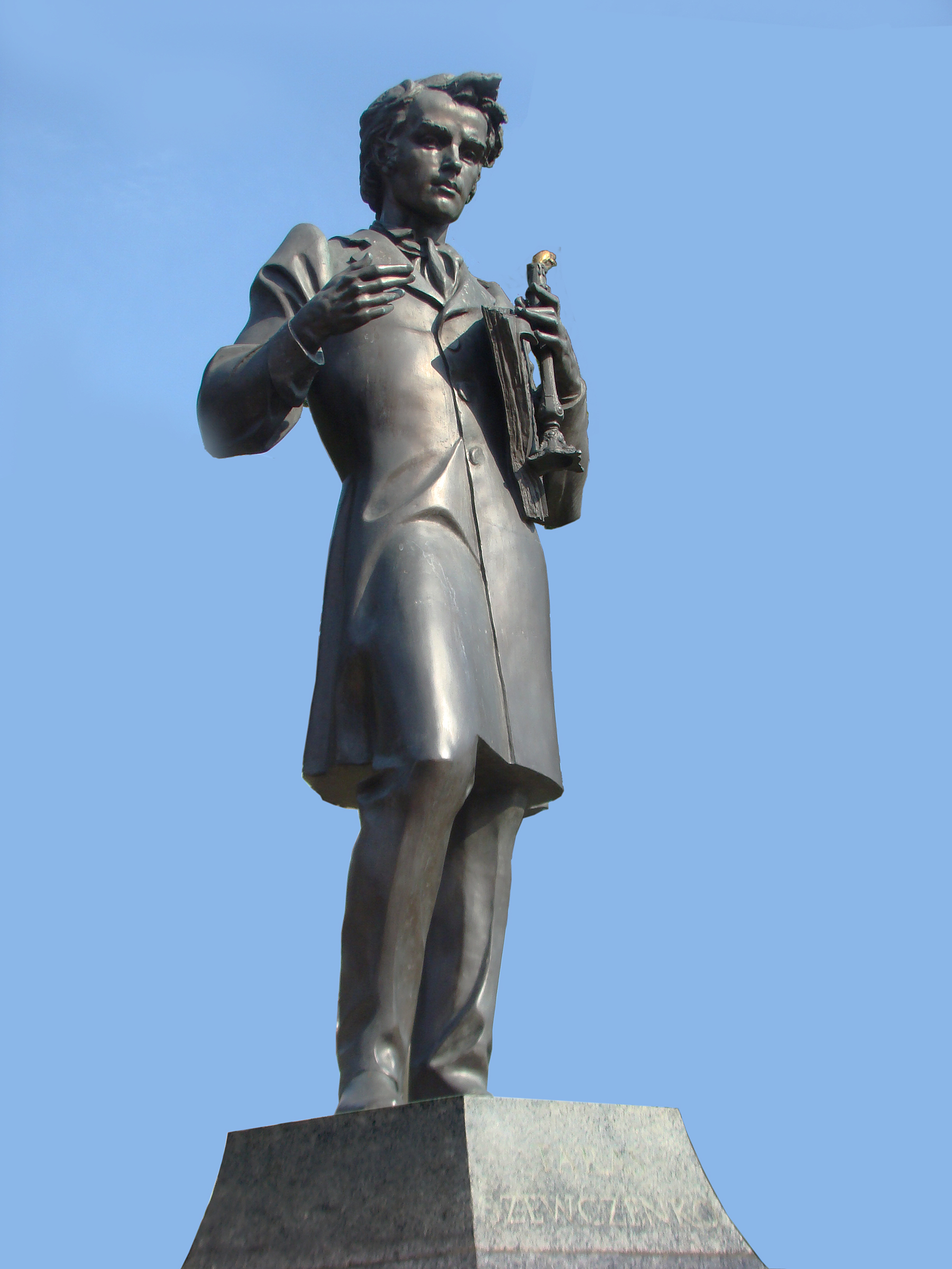 Taras Shevchenko, Ukrainian poet, monument in Warsaw